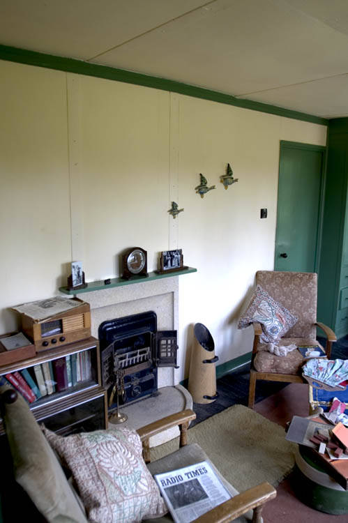 Amersham Prefab at Chiltern Open Air Museum - the front room showing solid-fuel fire and radio Author: Antony McCAllum